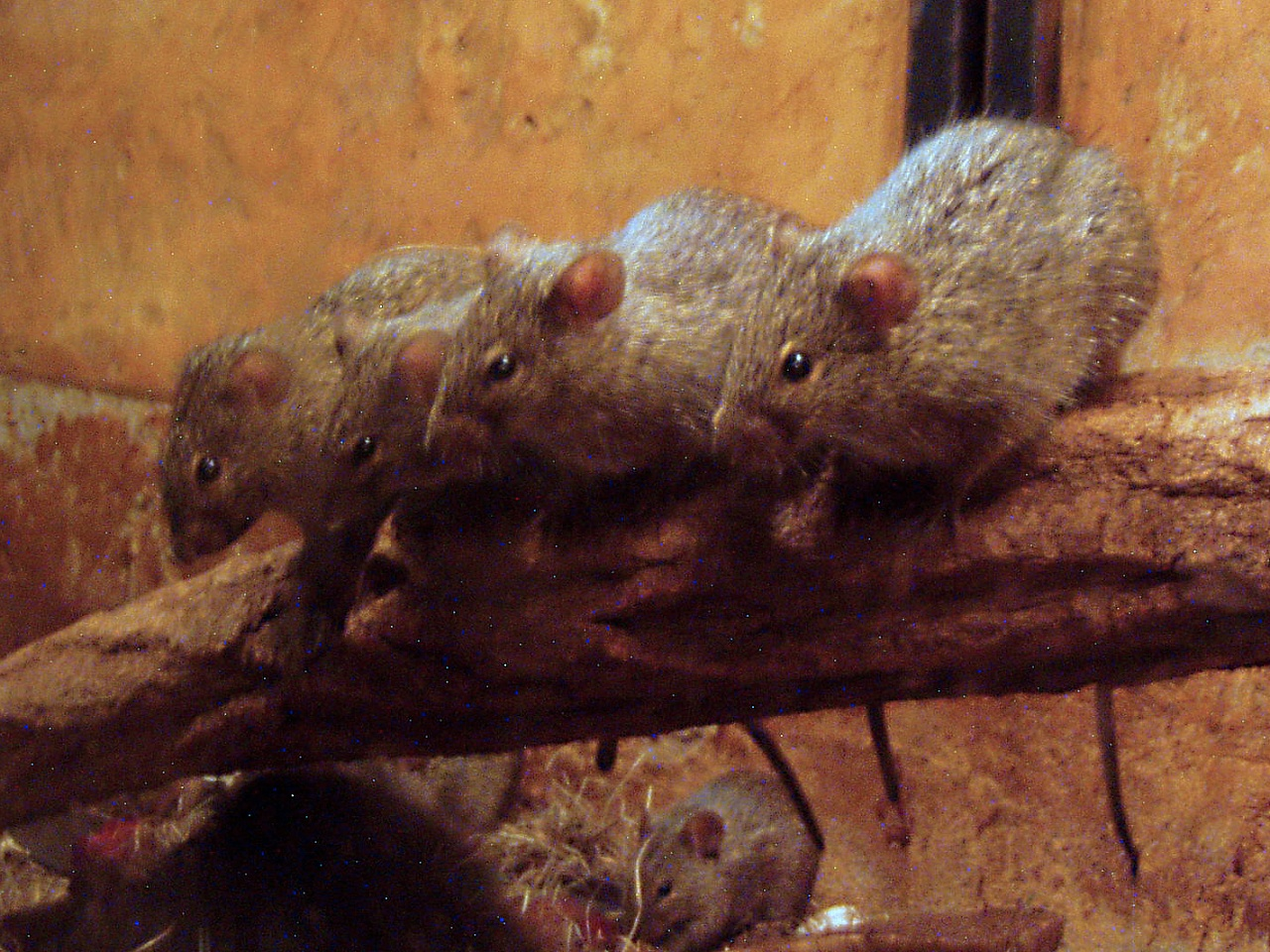 Arvicanthis niloticus (Prague Zoo)